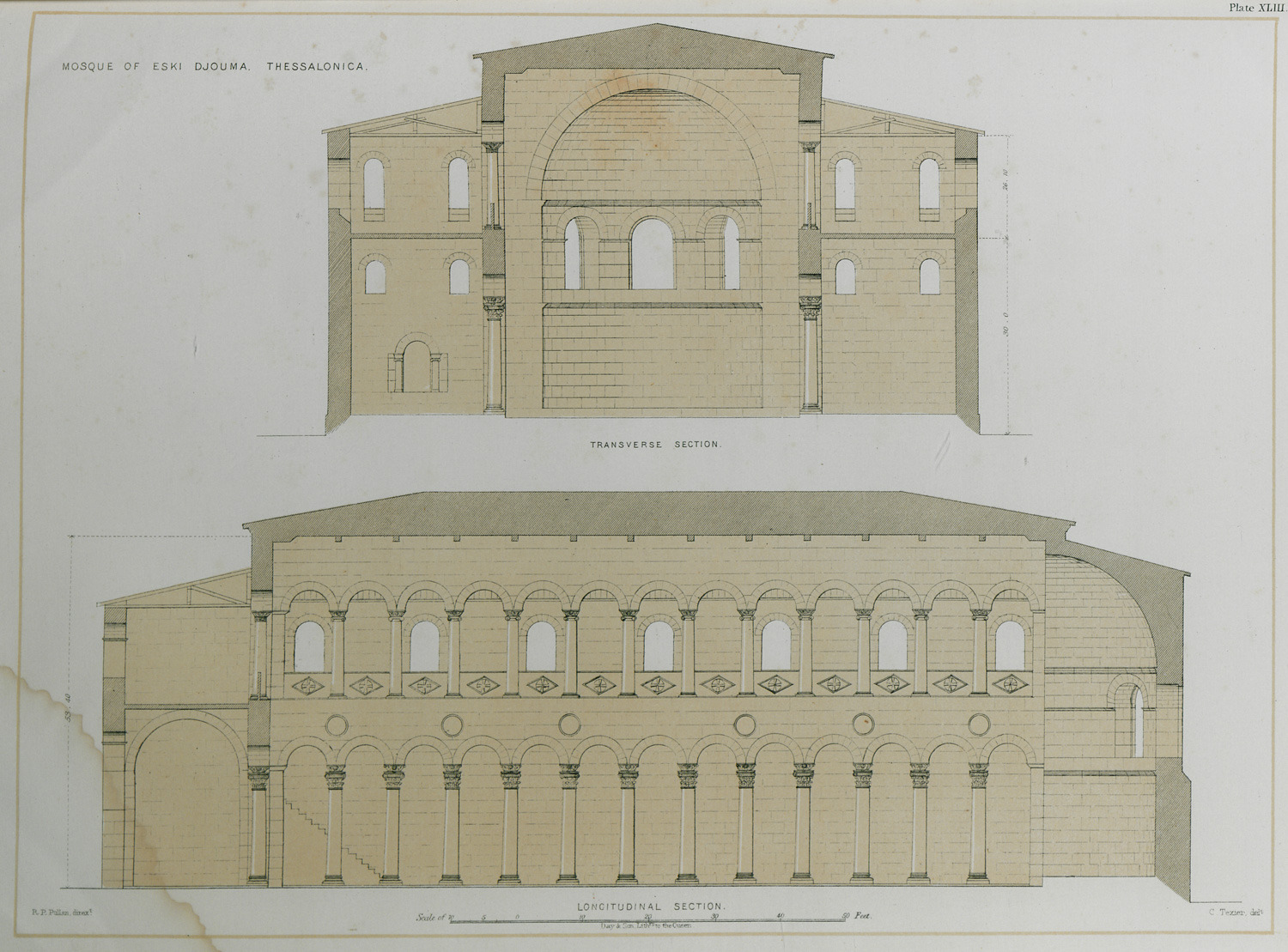 Félix Marie Charles Texier. Byzantine Arcitecture, illustrated by Examples of Edifices erected in the East during the earliest Ages of Christianity, R.Popplewell Pullan, London, Day & Son, 1864.